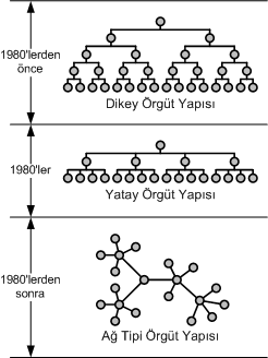 Evolution of organizational structures in the 20th Century.